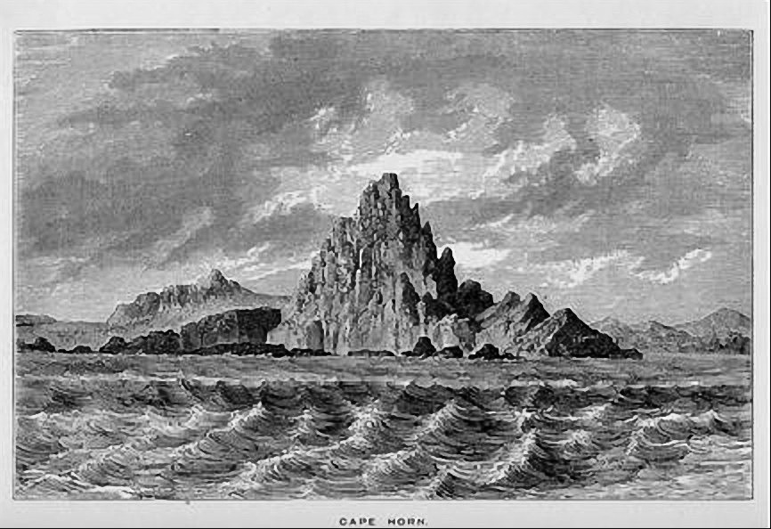 Illustration from "The Story of Ida Pfeiffer and her Travels in many Lands", Thomas Nelson and Sons, London, Edinburgh and New York.